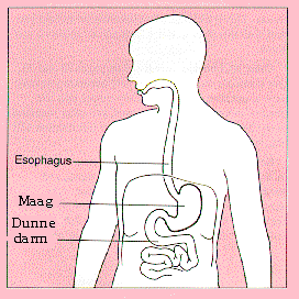 Stomach diagram. Dutch translation of Image:Stomach diagram.gif